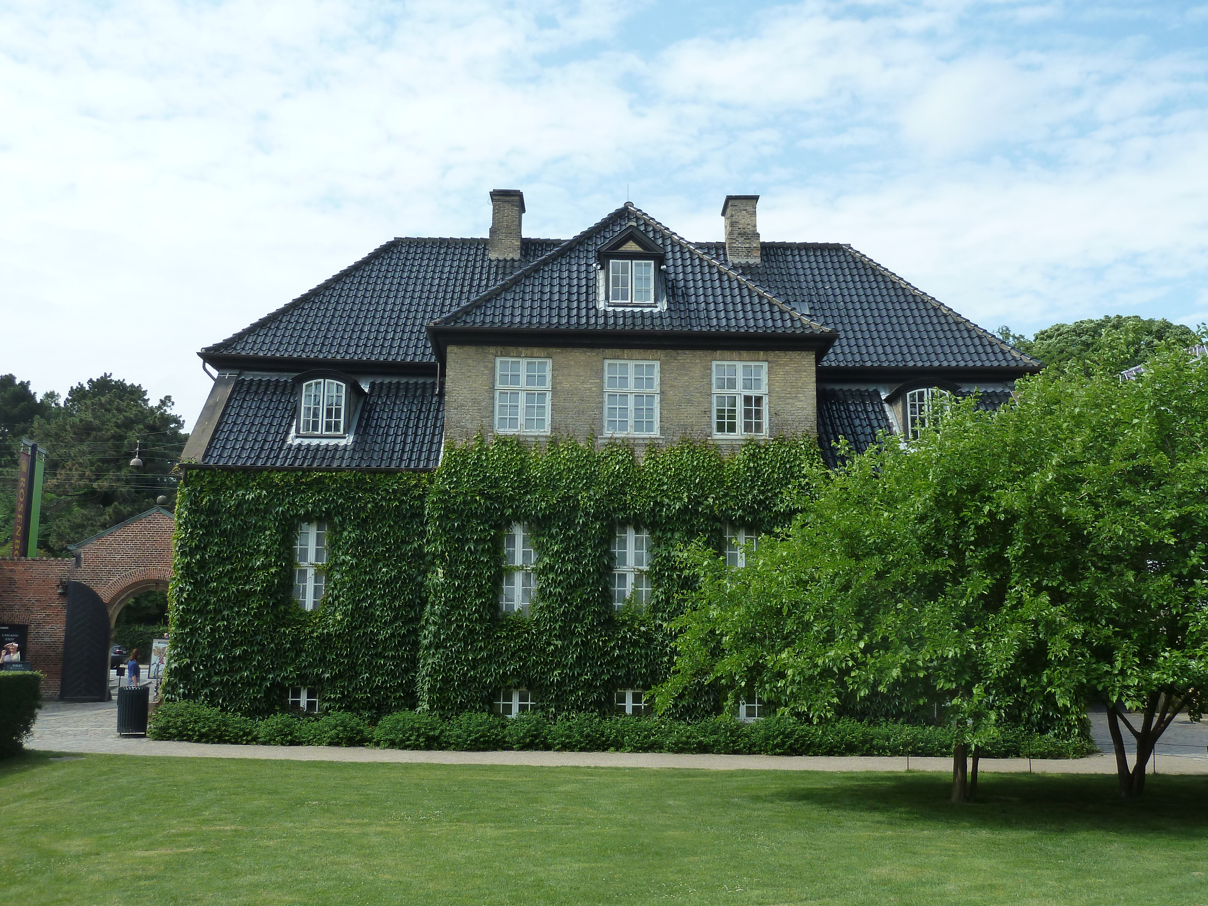 Kommandantboligen NeXT to the main entrance to Rosenborg Castle in Kongens Have in Copenhagen, Denmark